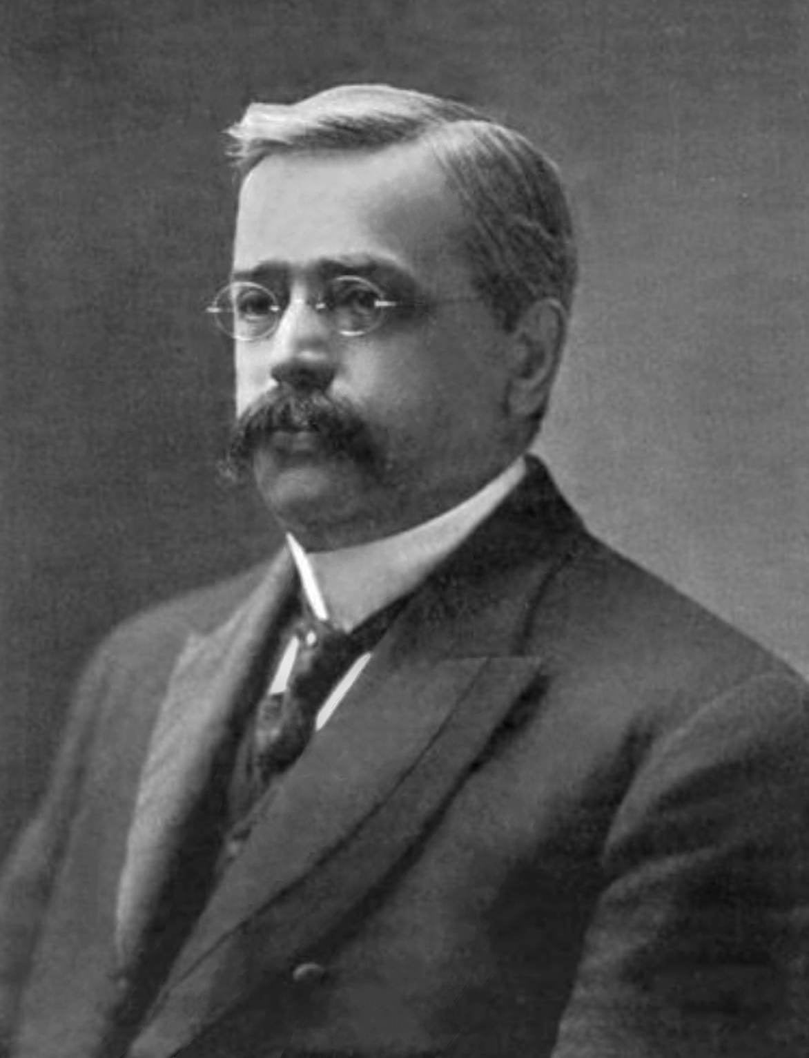 Henry Burd Cassel (1855-10-19 – 1926-04-28), Member of the U.S. House of Representatives from Pennsylvania (1901-1909).